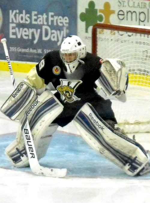 This photo was taken by Devan Mighton during the 2013-14 GOJHL season.